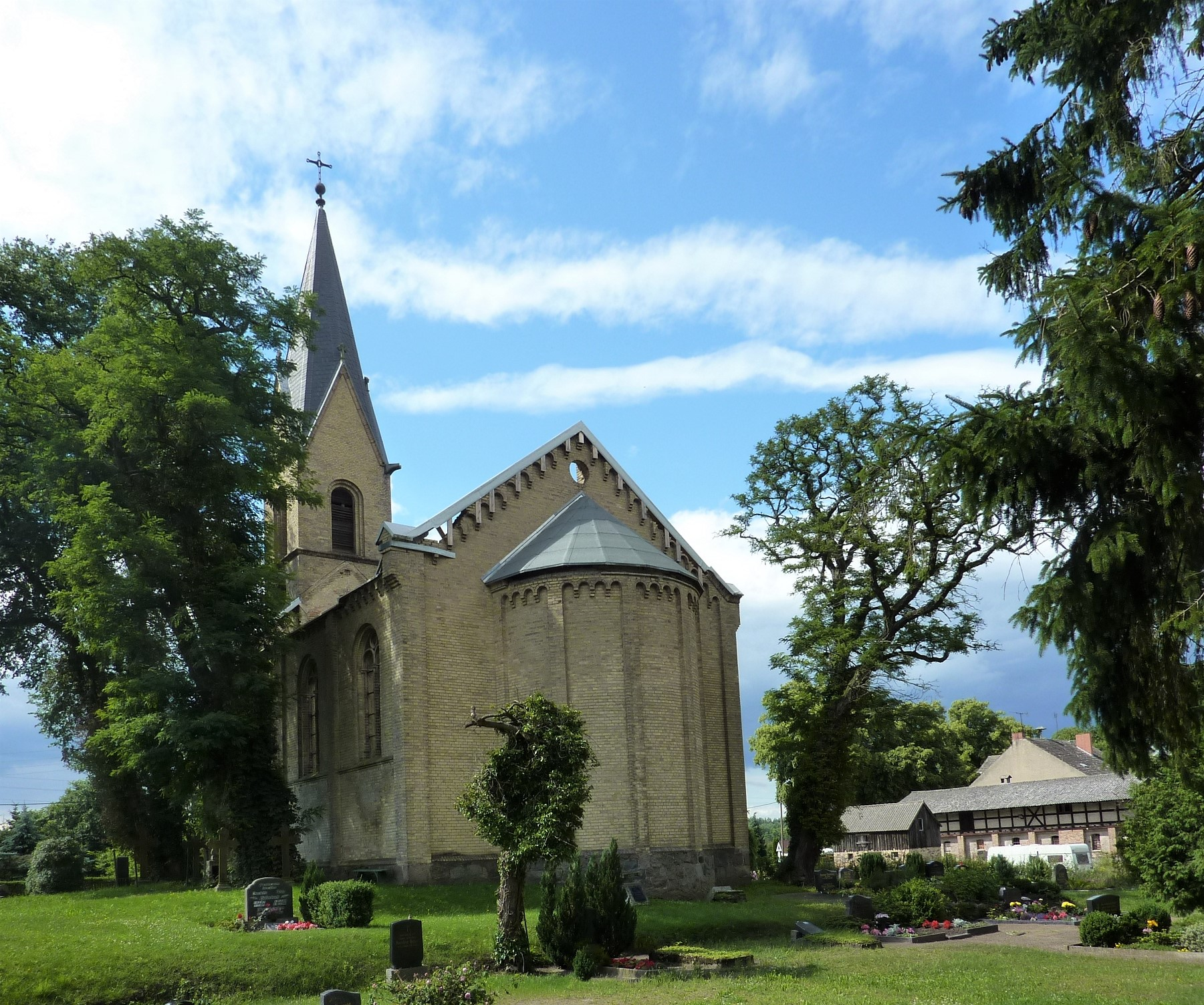 Church in Altthymen